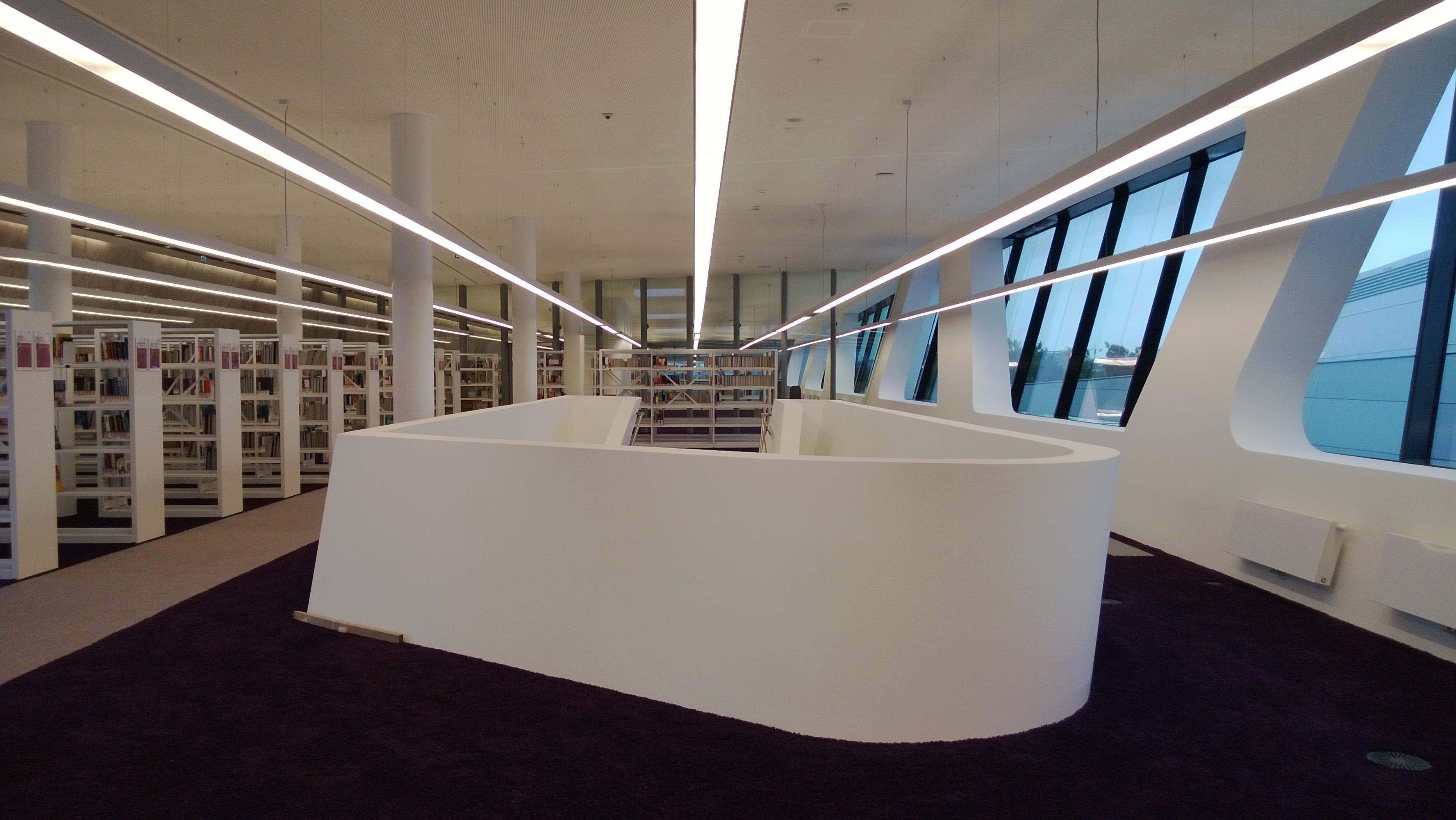 6th floor in the University Library (LC building) at the University of Economics and Business, Vienna